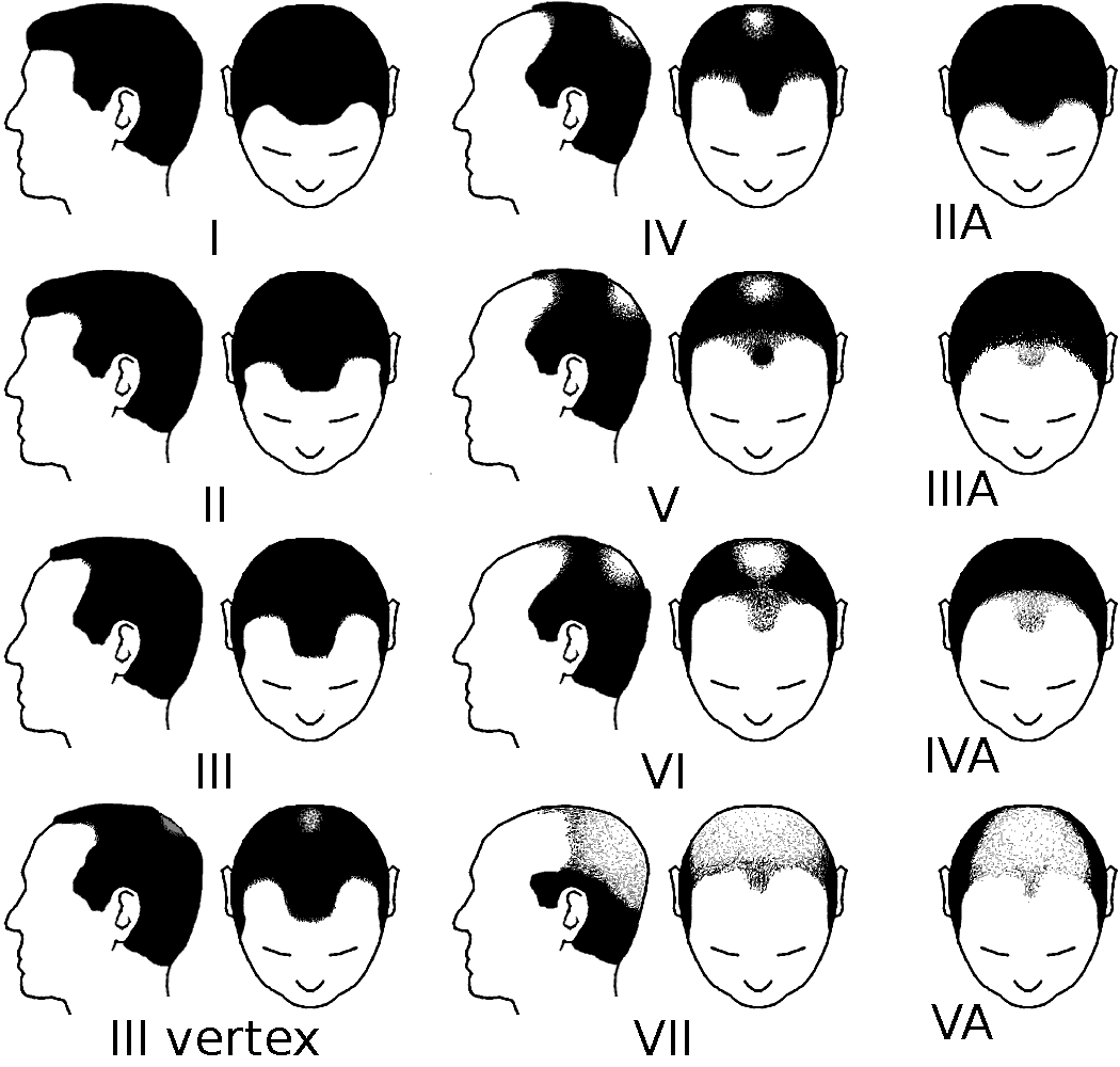 This picture shows two major patterns of the Dr. O’Tar Norwood's complicated male pattern baldness classification system. This system is based on the Hamilton scale and is often called the Norwood-Hamilton scale. I: Small to no recession of the hairline. II: Triangular, often symmetrical, areas of recession at the frontotemporal hairline. III: Small hair loss enough to be considered as baldness according to Norwood. There are symmetrical deep recession at the temples that are sparsely covered by hair or bald. III vertex: The hair loss is mostly from the top the head (vertex) with limited recession of the frontotemporal hairline that does not exceed the recession seen in III. IV: More severe frontotemporal recession than in III and there is sparse hair or no hair on the vertex. The two areas of hair loss are separated by a band of moderately dense hair that extends across the top. This band connects with the fully haired fringe on the sides of the scalp. V: The vertex hair loss area is separated from the frontotemporal area but it is less distinct. The sparse band of hair across the crown is narrower and the vertex and frontotemporal areas of hair loss are larger. VI: The bridge of hair that crosses the crown is gone and only sparse hair remains. The frontotemporal and vertex areas are joined together and the extent of hair loss is greater. VII: The most severe form of hair loss and only a narrow band of hair in a horseshoe shape remains on the sides and back of the scalp. Remaining hair is usually fine and not dense. Variant A: IIA: The hairline is anterior to the coronal plane 2 cm anterior to the external auditory meatus. IIIA: The hairline has receded back to a point between the limit of IIA and the level of the external auditory meatus. IVA: The hairline has receded beyond the external auditory meatus but has not reached the vertex. VA: The area of hair loss includes the vertex. Hair loss more severe than VA cannot be distinguished from Types VI or VII.